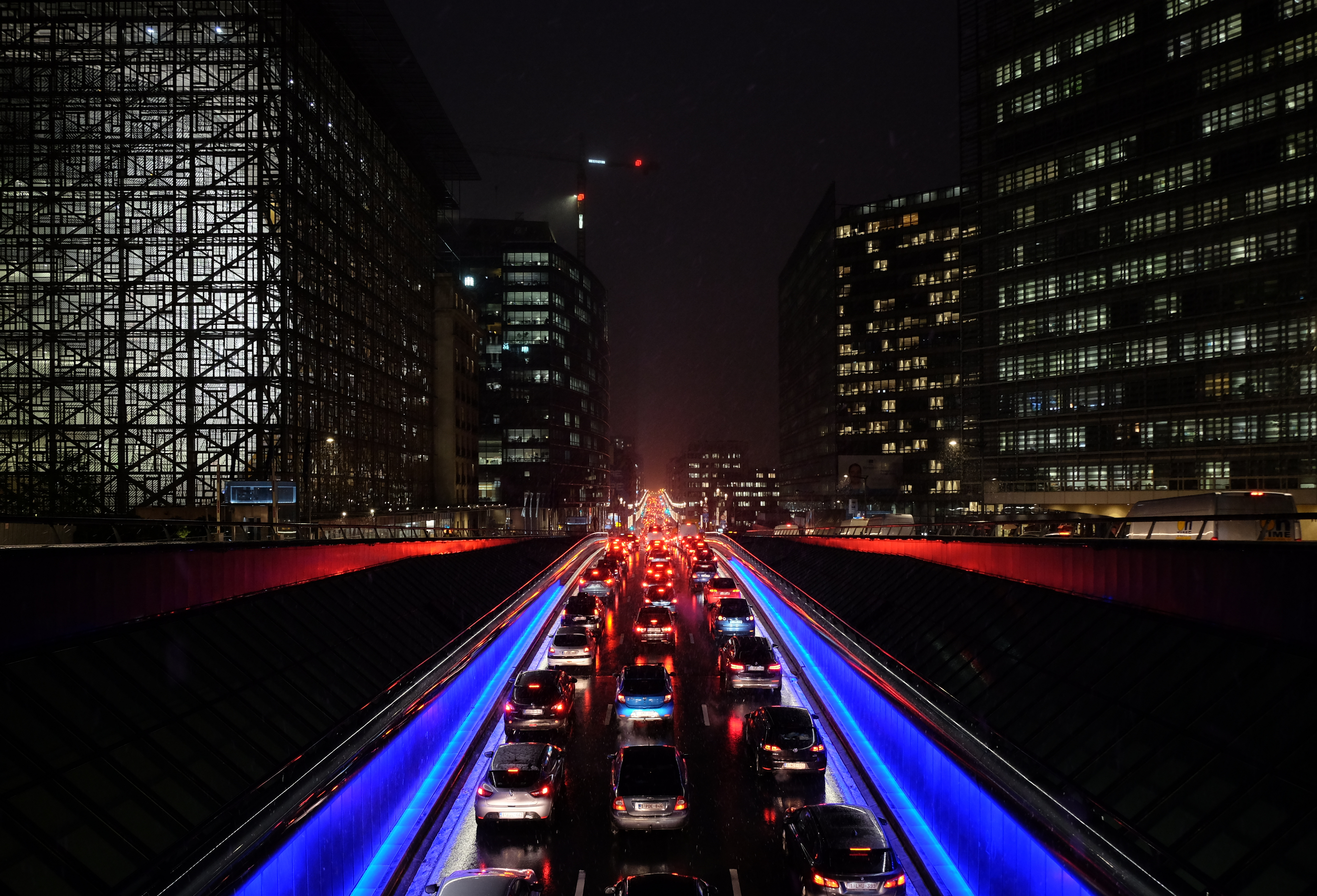 Tunnel Belliard, coming out on Rue de la Loi in the European Quarter of Brussels (Belgium) Picture taken on a snowy night Right: Berlaymont building, left: Europa building followed by Lex building